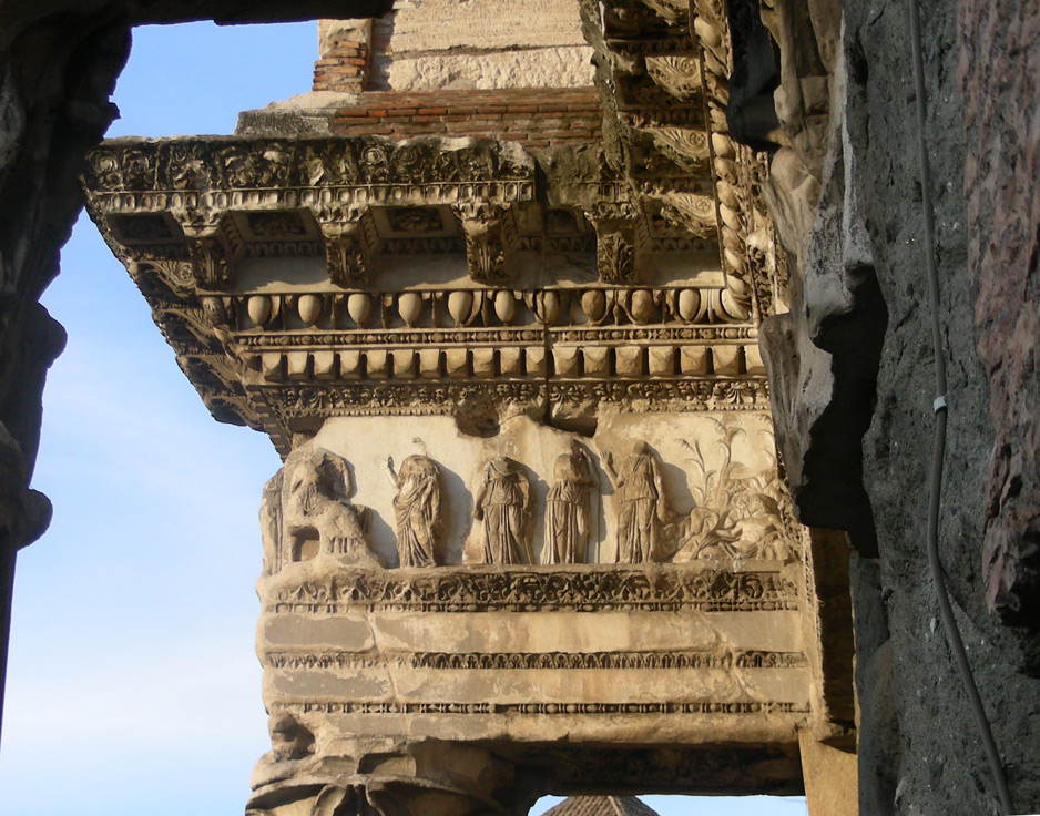 Rome, Nerva's Forum (Imperial Forums), "Colonnacce", architectural decoration